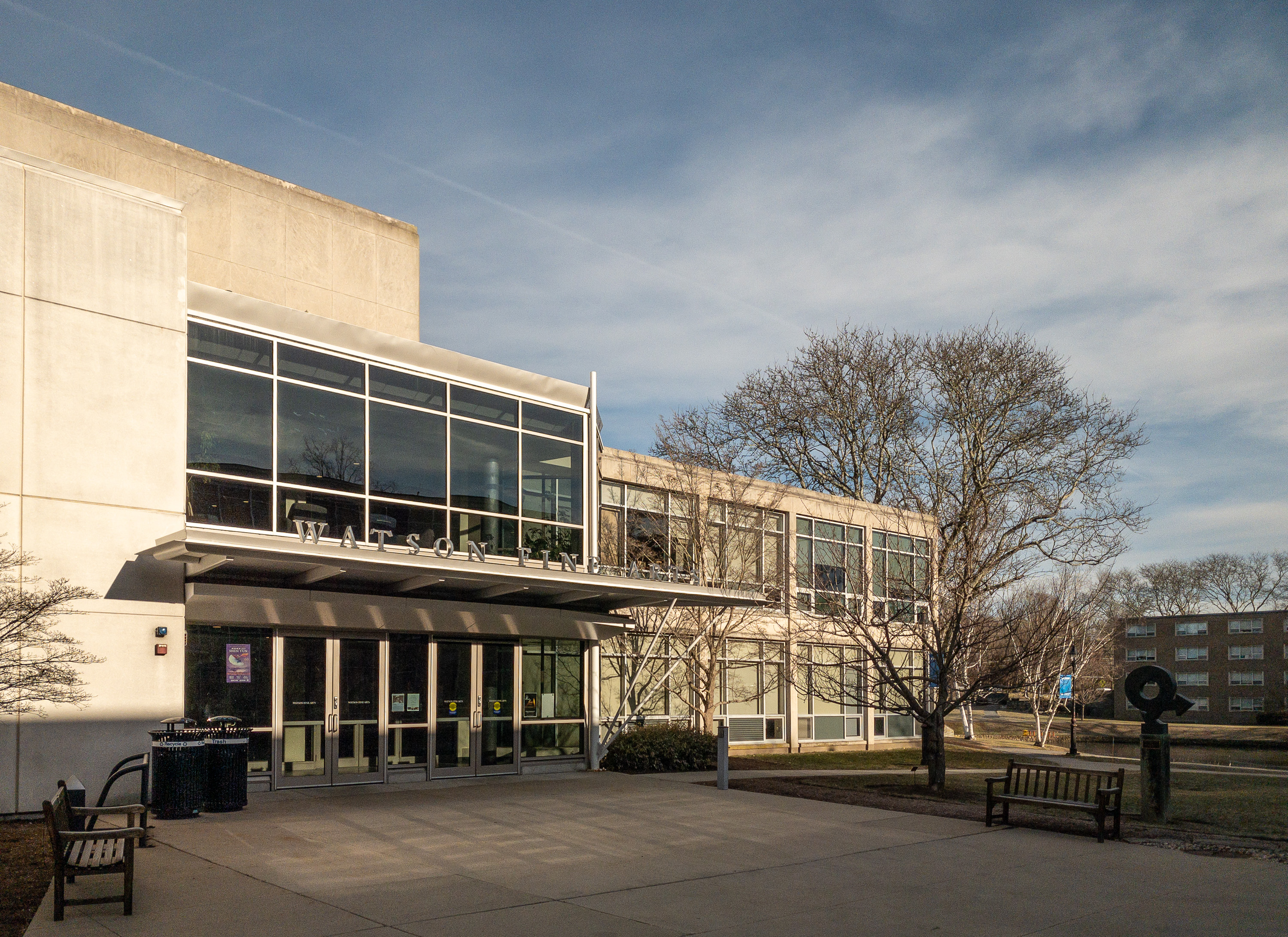 Watson Fine Arts Center, Wheaton College, Massachusetts